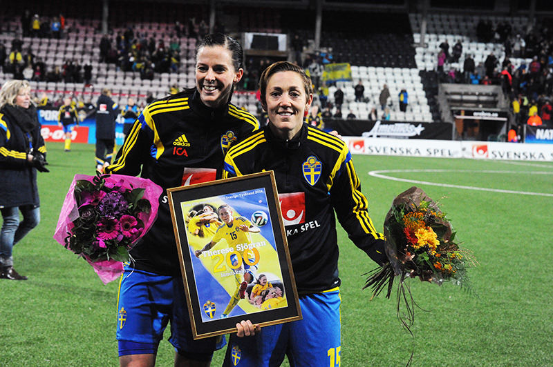 Swedish footballers Lotta Schelin (left) and Therese Sjögran (right) after Sweden's 2-1 friendly defeat by Germany in October 2014. Schelin became Sweden's all-time top goalscorer in the match by scoring her 73rd international goal. Sjögran made a record 200th appearance for Sweden.